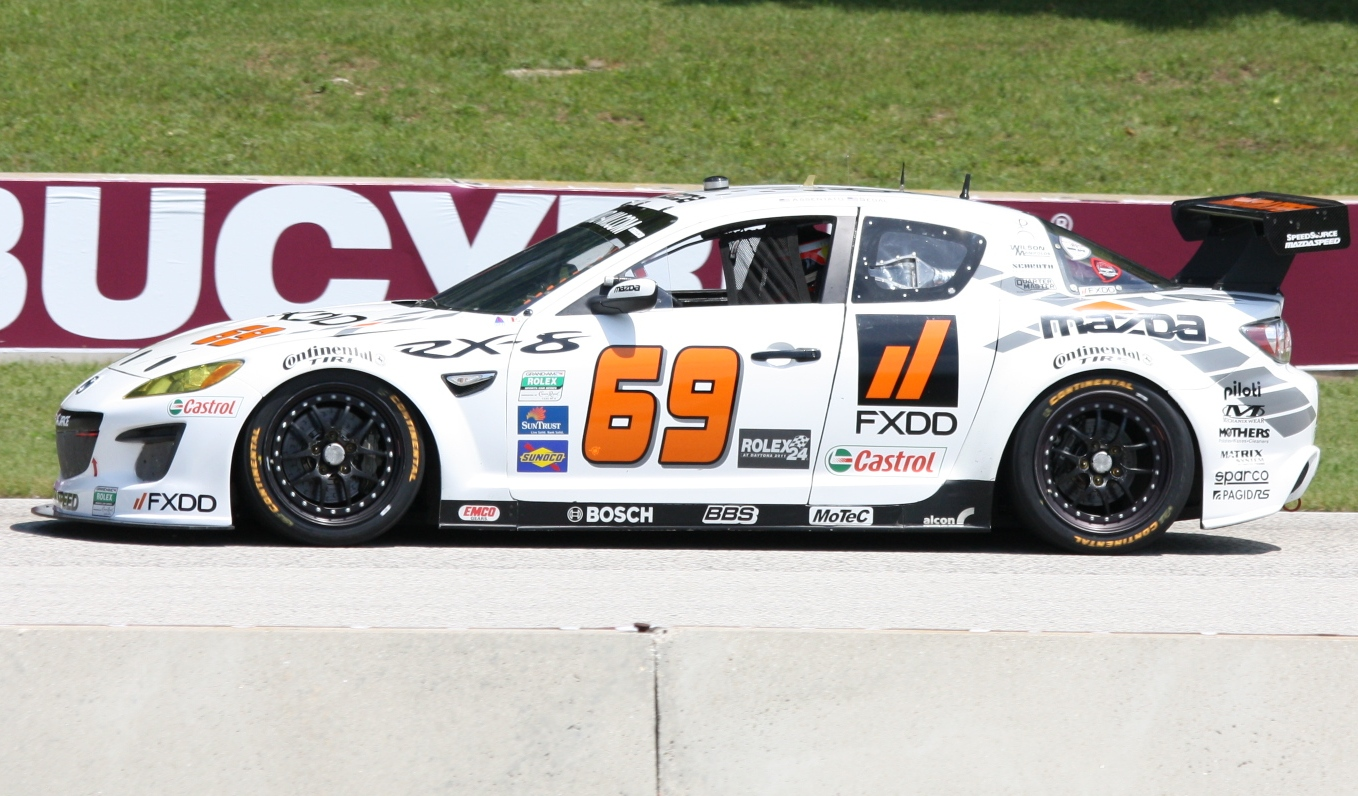 The GT sports car of Emil Assentato and Jeff Segal racing at an event at Road America.